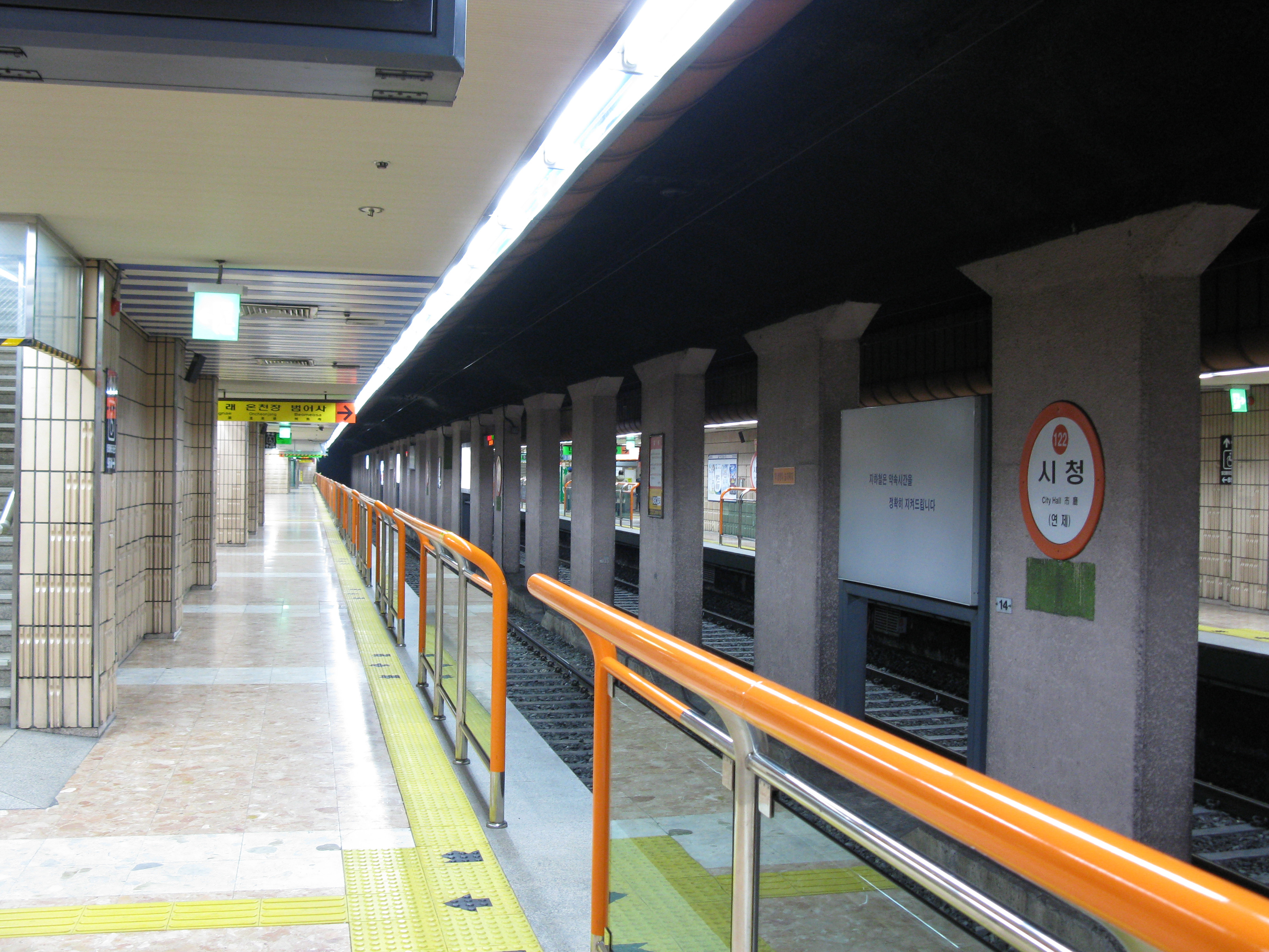 City Hall Station platform (Busan Subway Line 1)